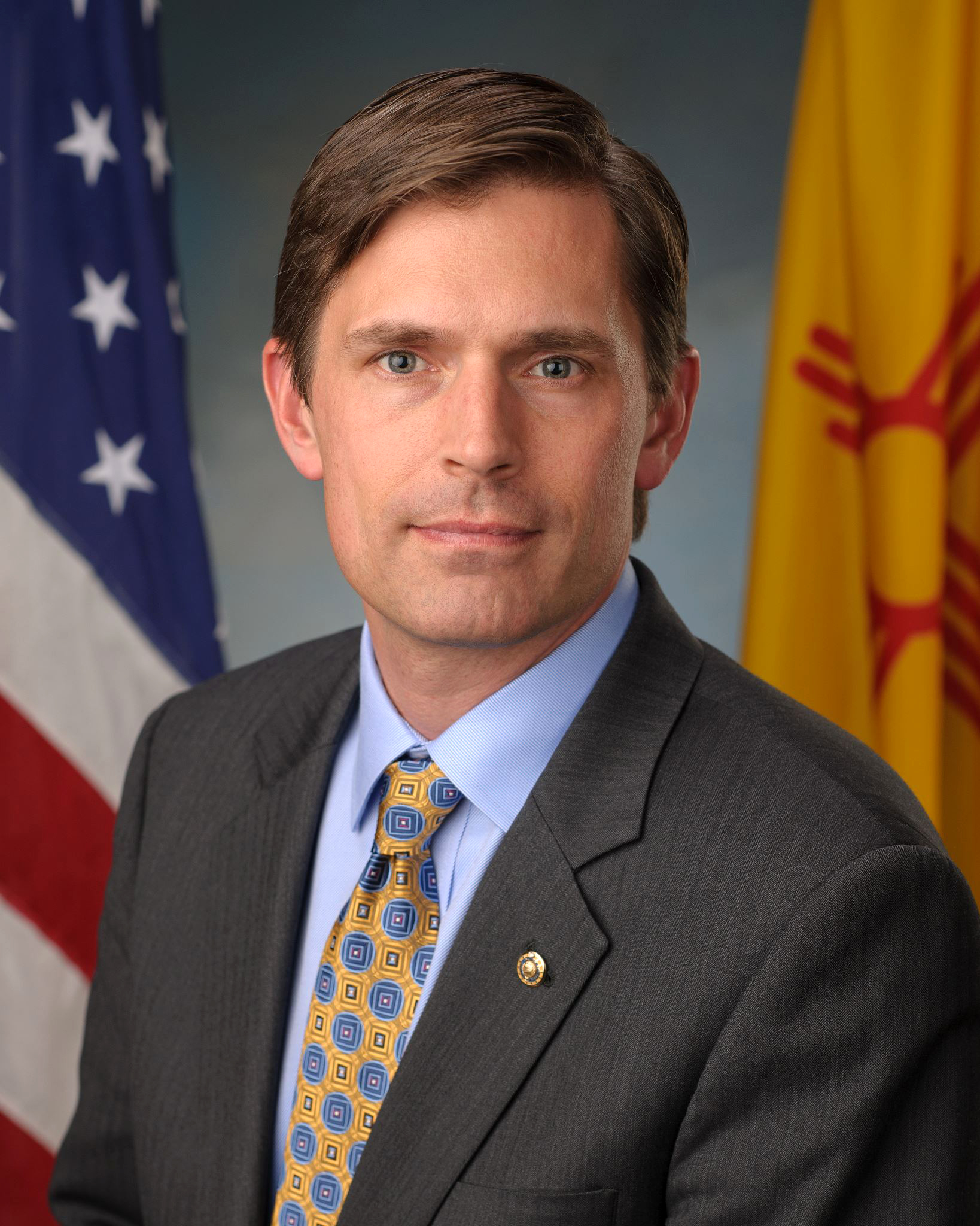 Official portrait of U.S. Senator Martin Heinrich (D-NM).